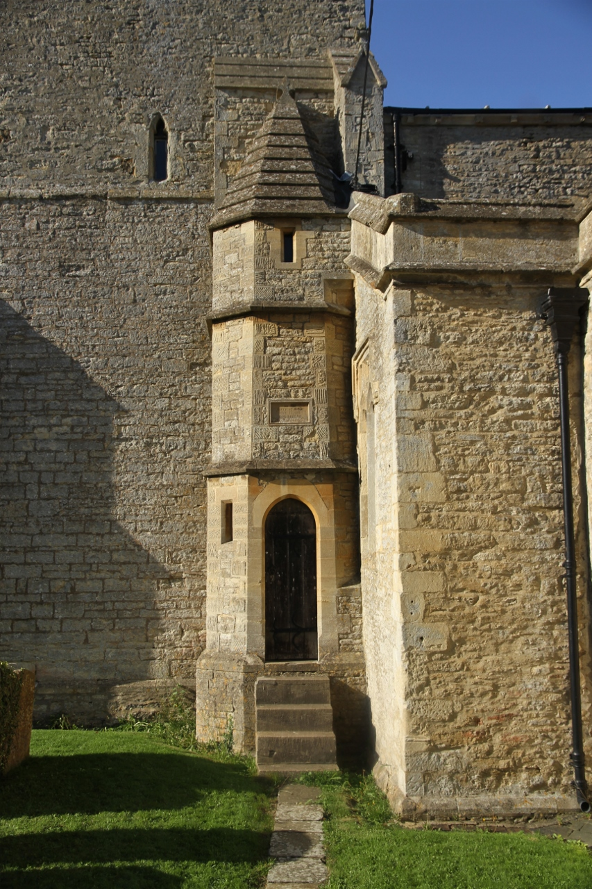 Stair turret added to St Mary the Virgin parish church, Chesterton, Oxfordshire in 1866